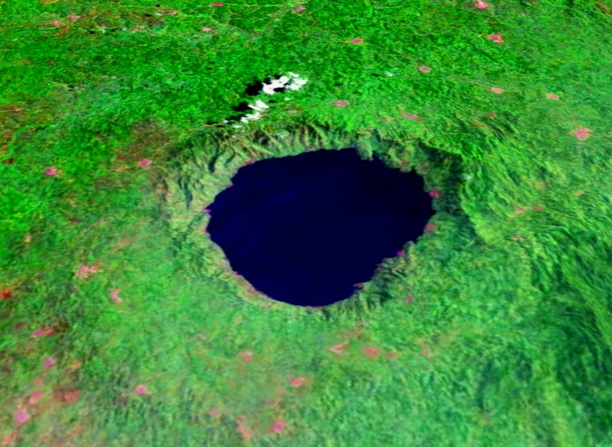 Lake Bosumtwi, Ghana, view from Southwest. Bosumtwiis a lake-filled impact crater, about 10.5 km in size an 1.3 million years old. Vertical exaggeration 3x.